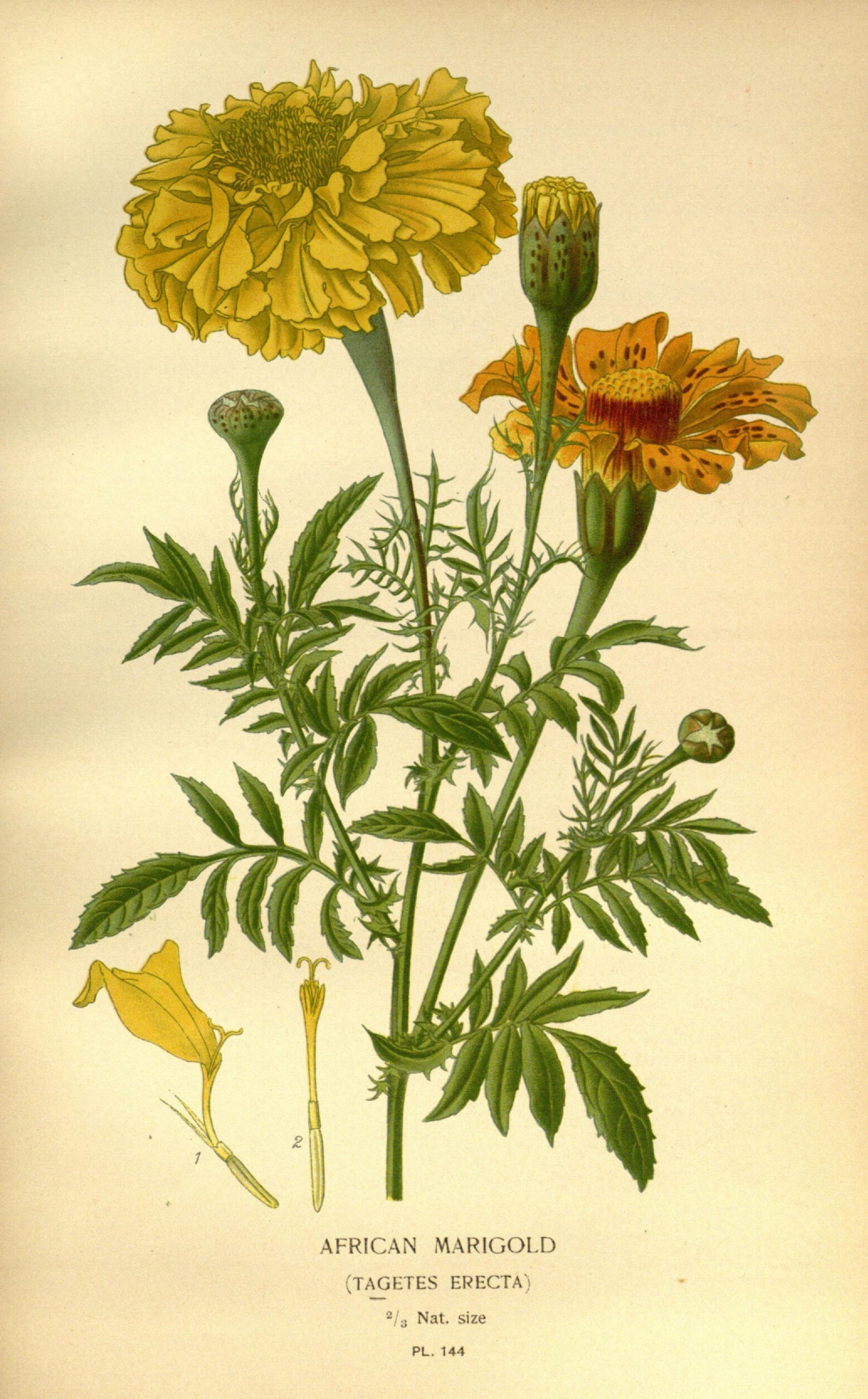 AFRICAN MARIGOLD (TAGETES ERECTA.